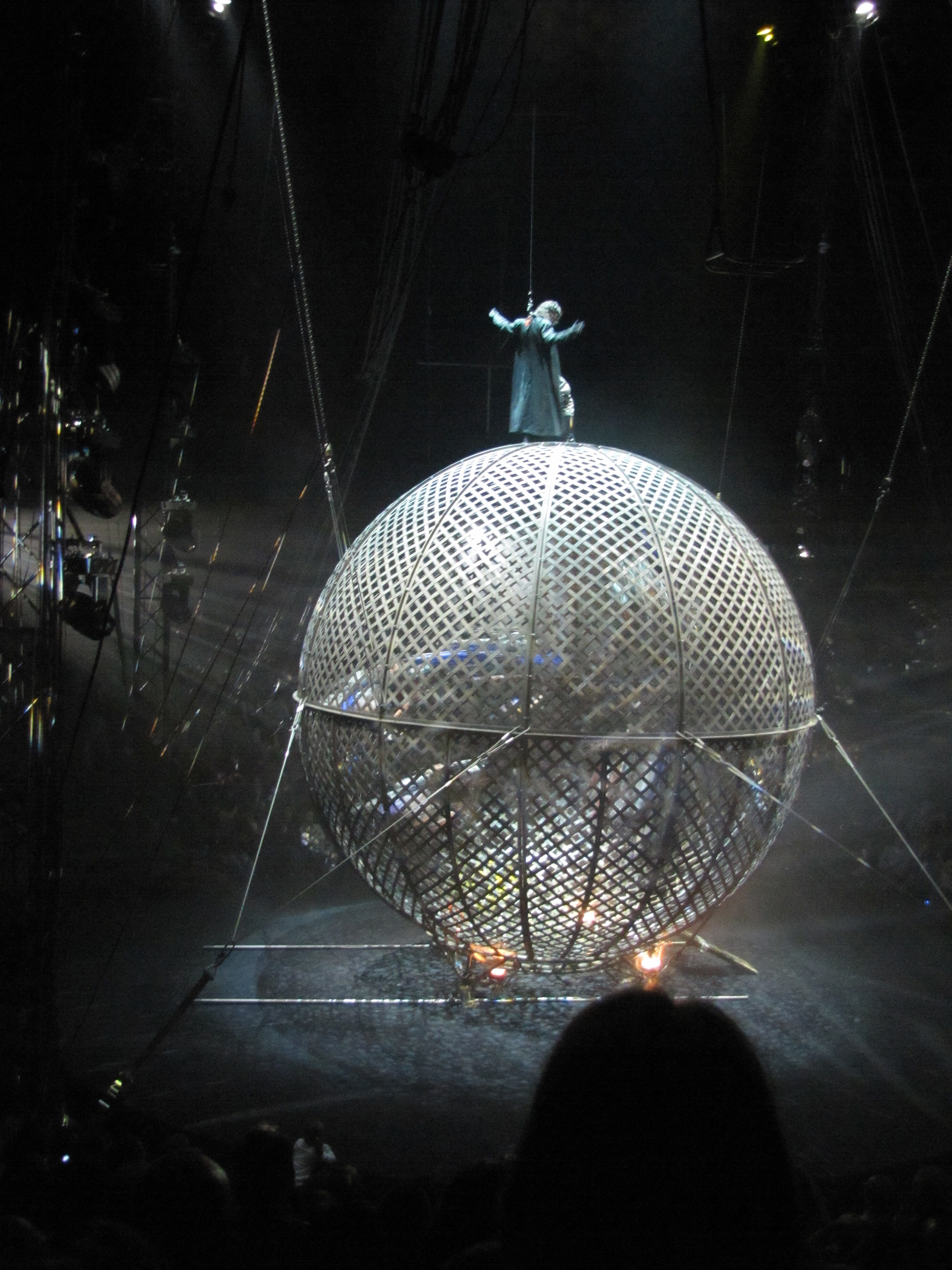 Globe of speed performance, circus "Flic Flac", 2010 in Frankfurt am Main, Germany.